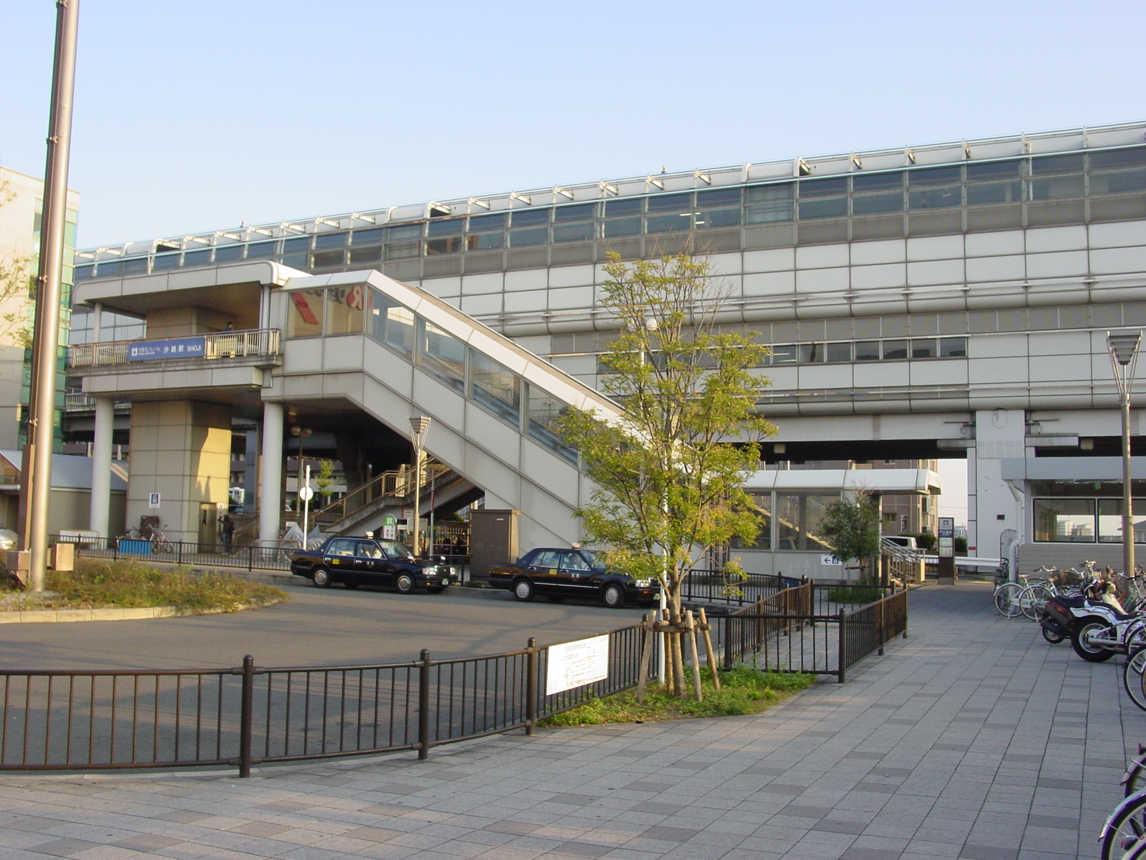 Shōji Station in Toyonaka, Osaka, Japan.